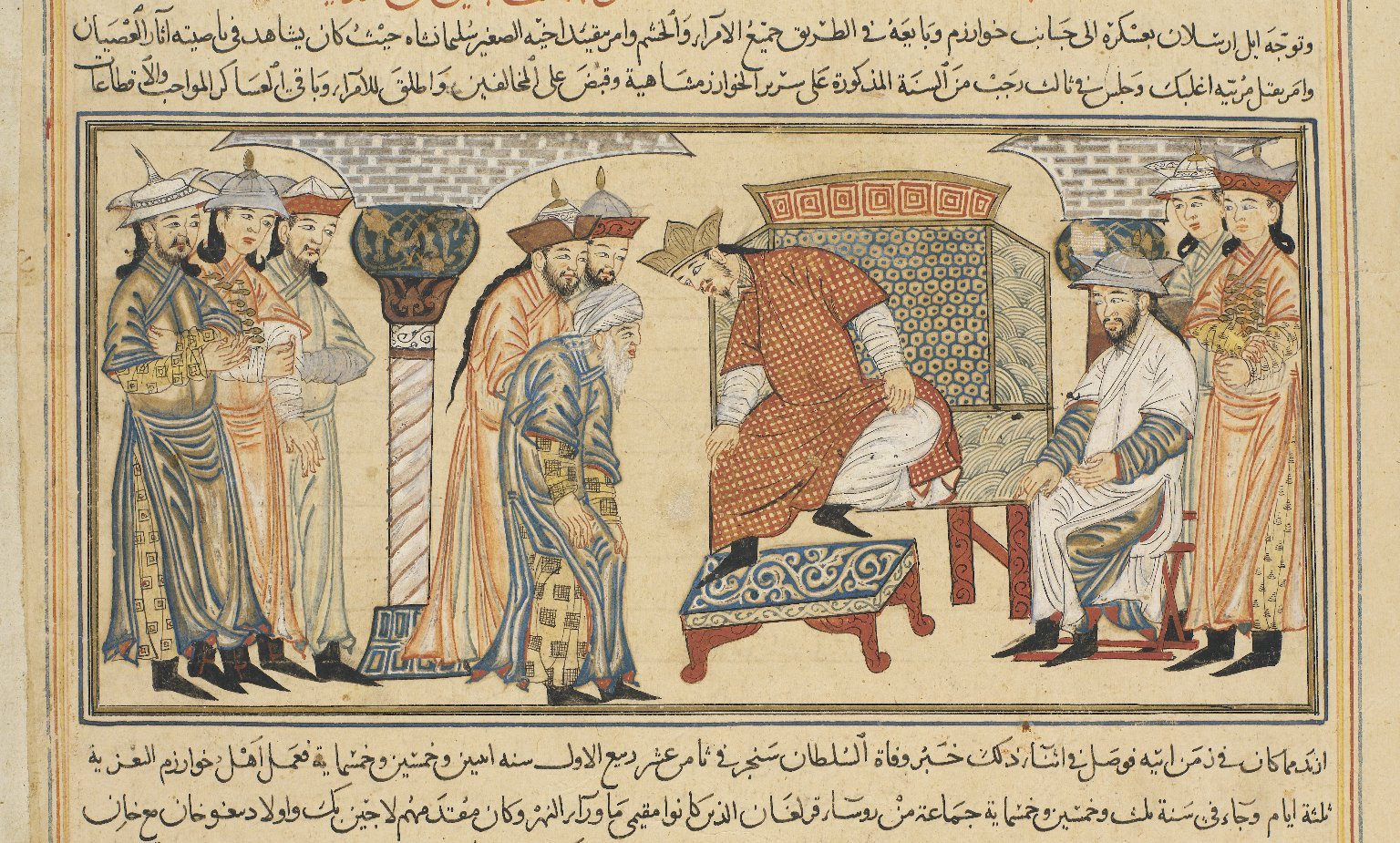 Coronation of Il-Arslan. This painting is from the book Jami' al-Tawarikh (literally "Compendium of Chronicles" but often referred to as The Universal History or History of the World), by Rashid al-Din, published in Tabriz, Persia, 1307 A.D.